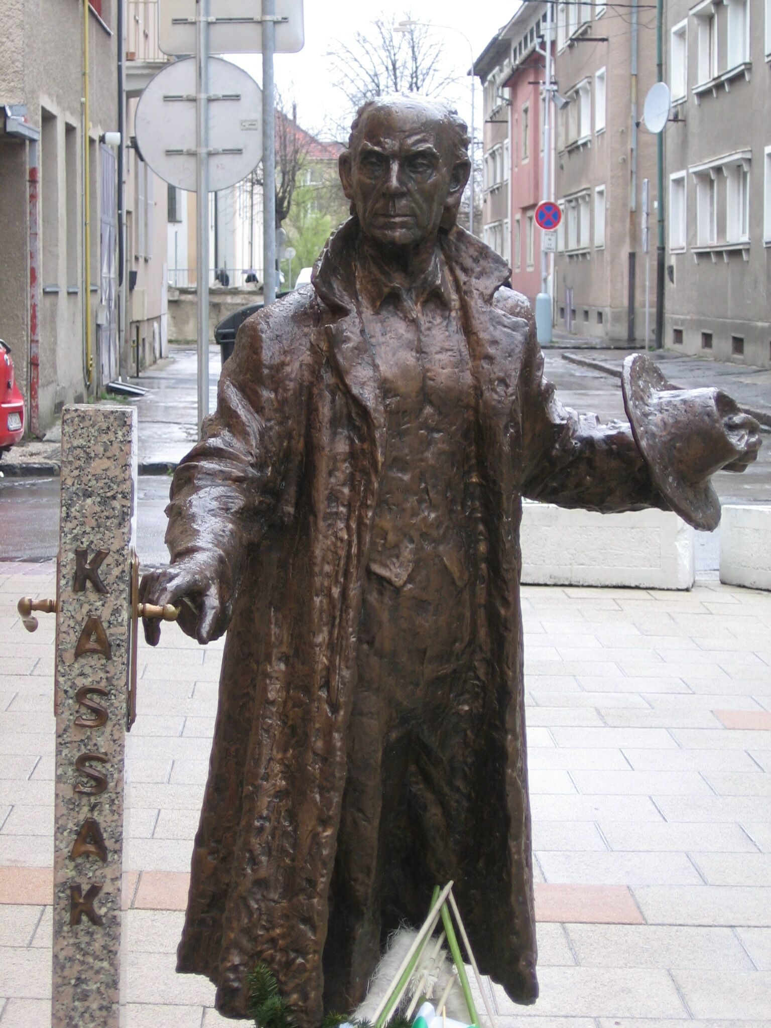 Statue of Lajos Kassák in the town